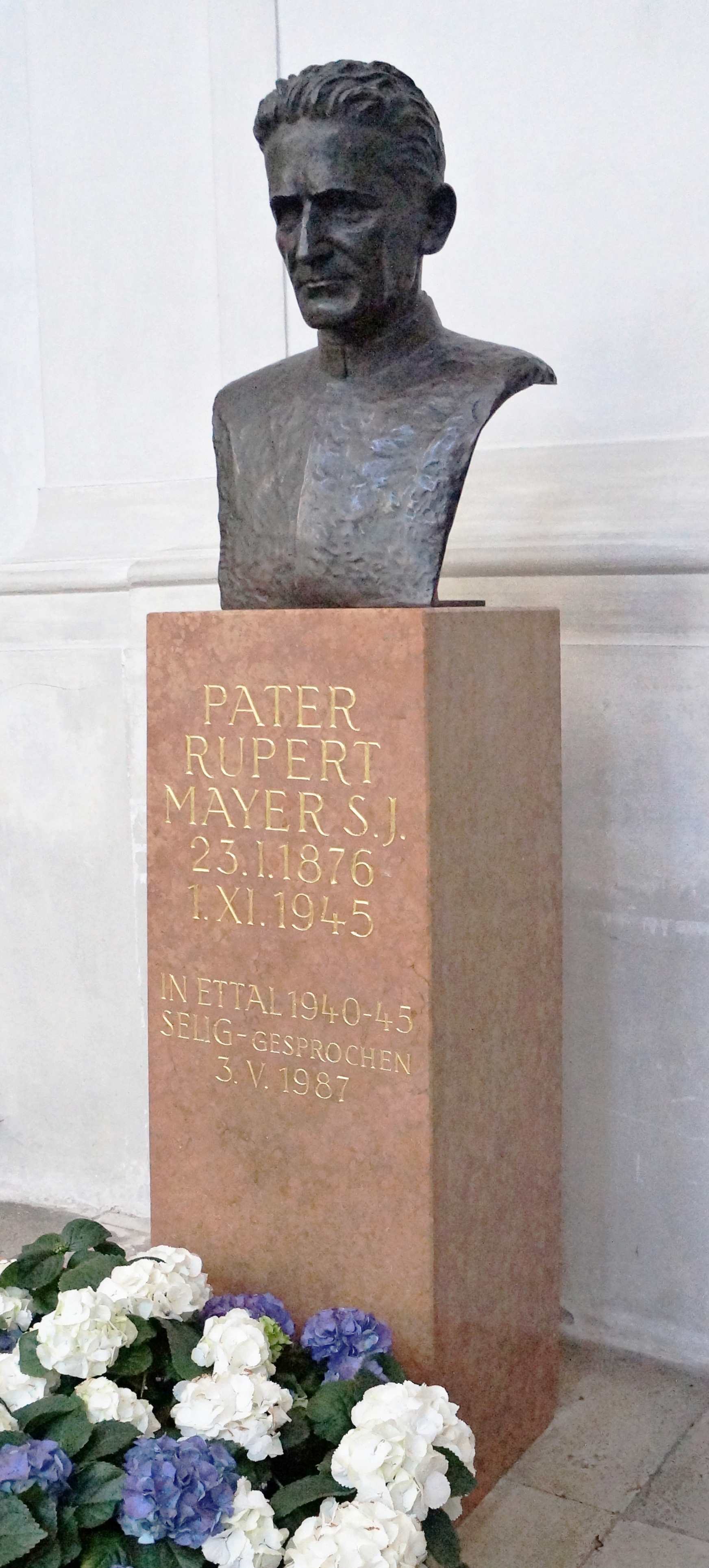 Rupert Mayer in Ettal Abbey